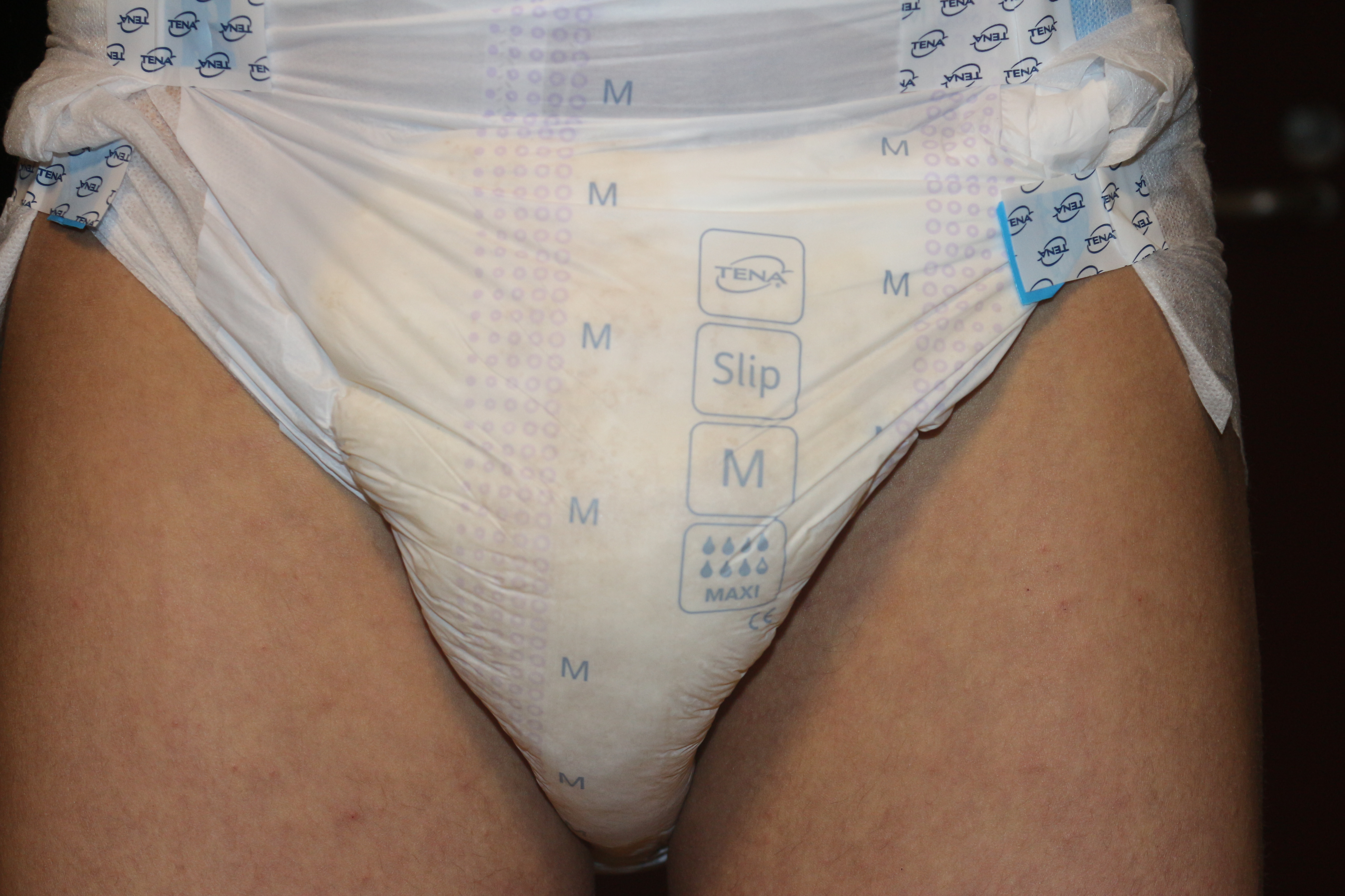 Adult demonstrating diaper fetishim by wearing a diaper